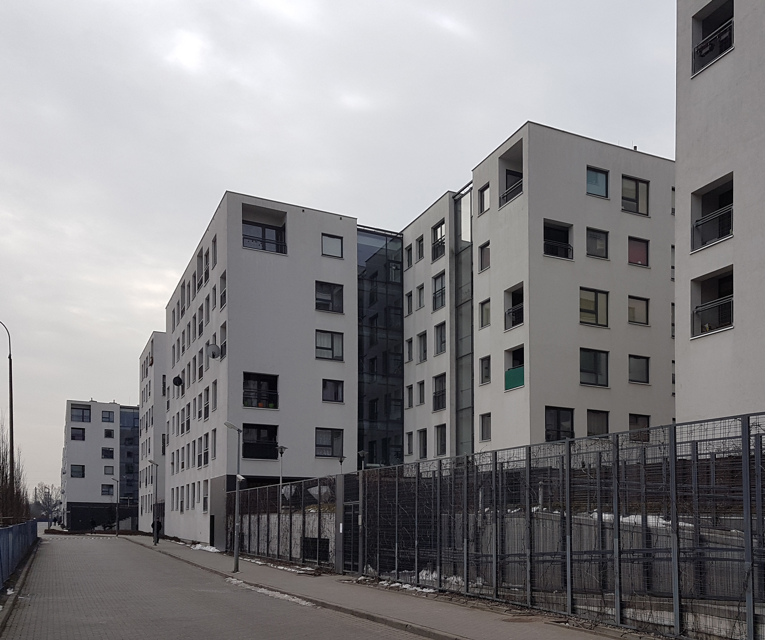 Górczewska Park in Warsaw